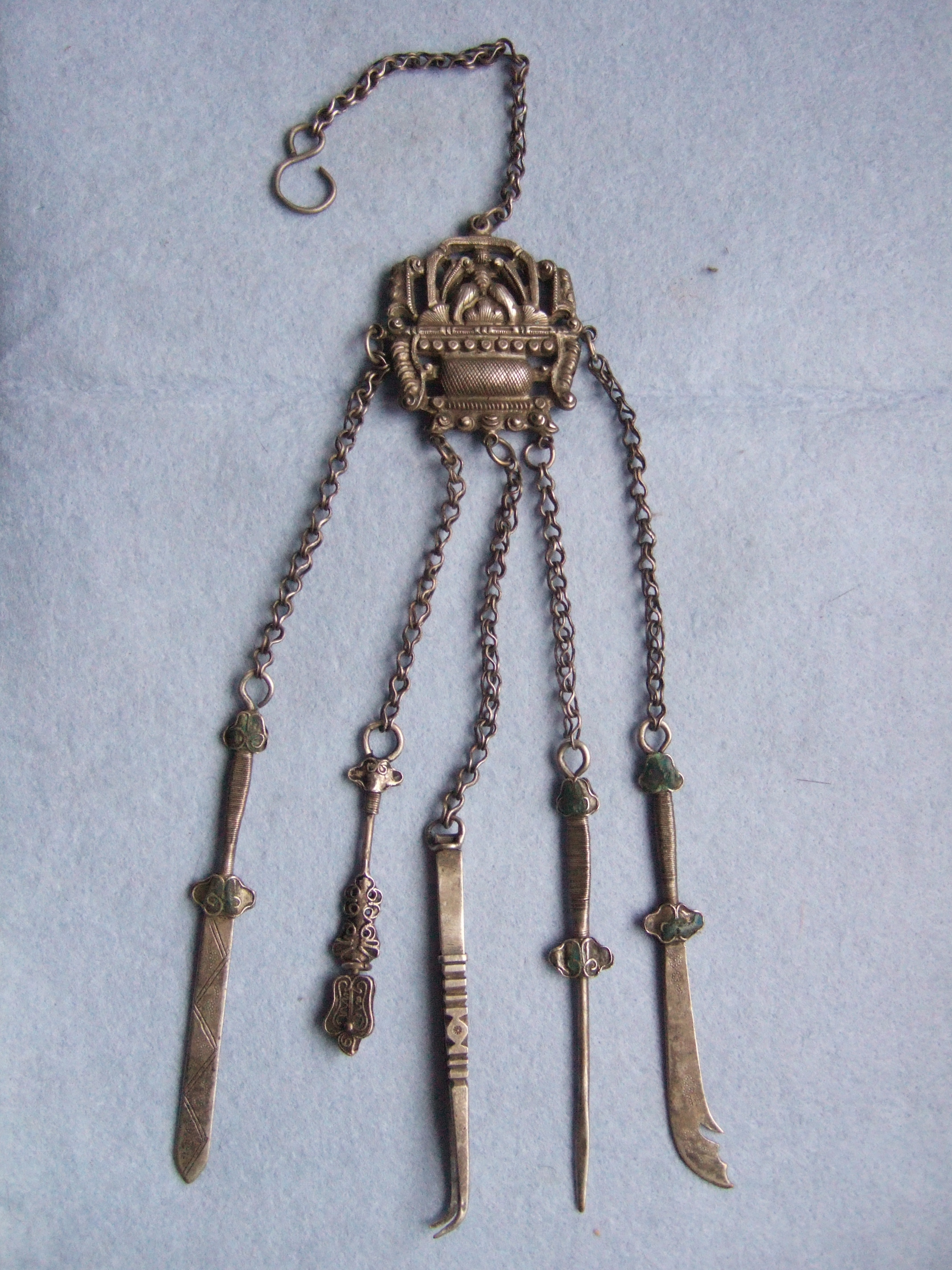 Tibetan Chab Chab for ladies